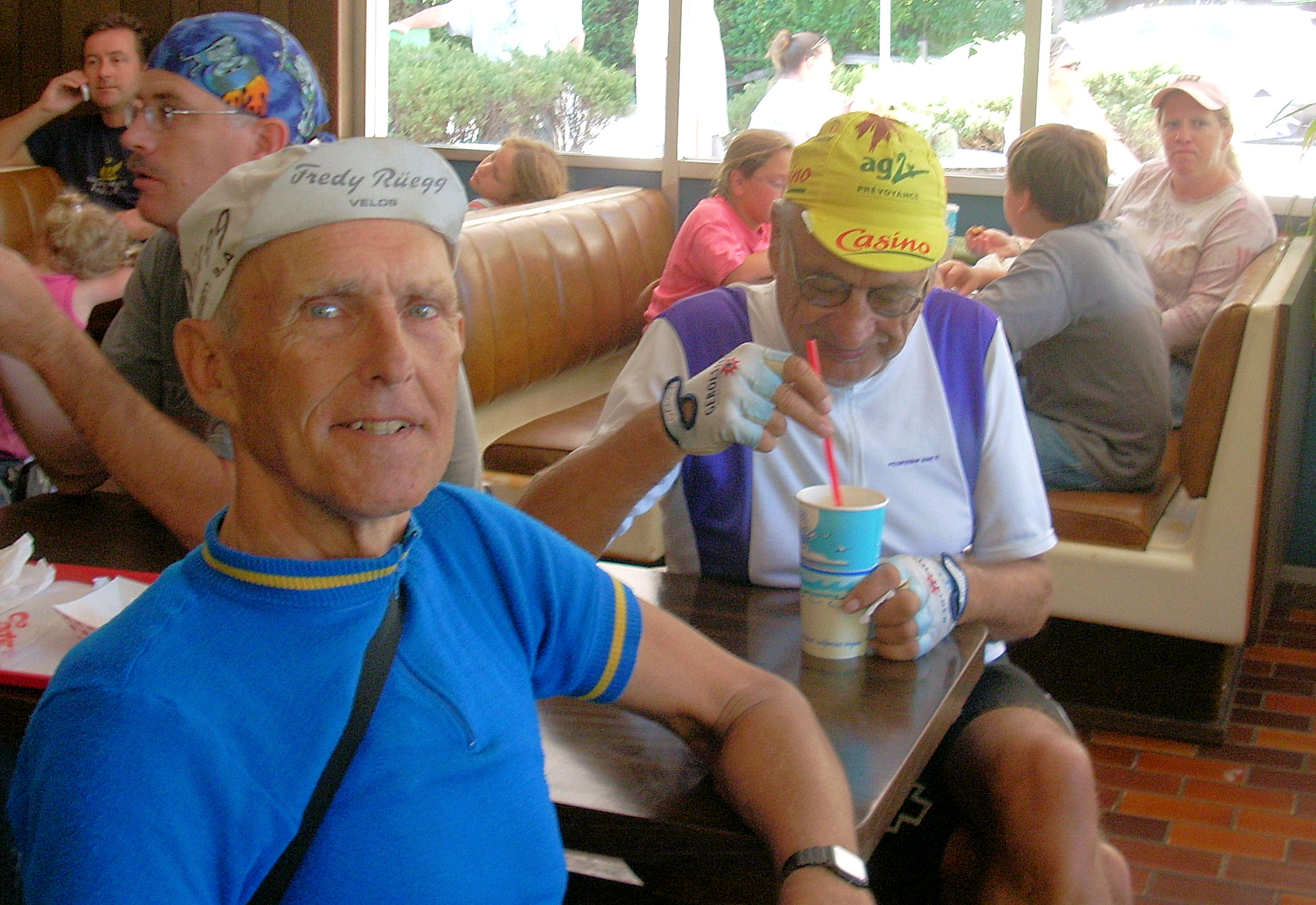 American cyclist and author Jobst Brandt and Joachim, 2008-09-02, at Foster's Freeze 110 Mountain St Boulder Creek, CA